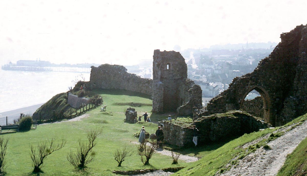 General view of Hastings Castle.